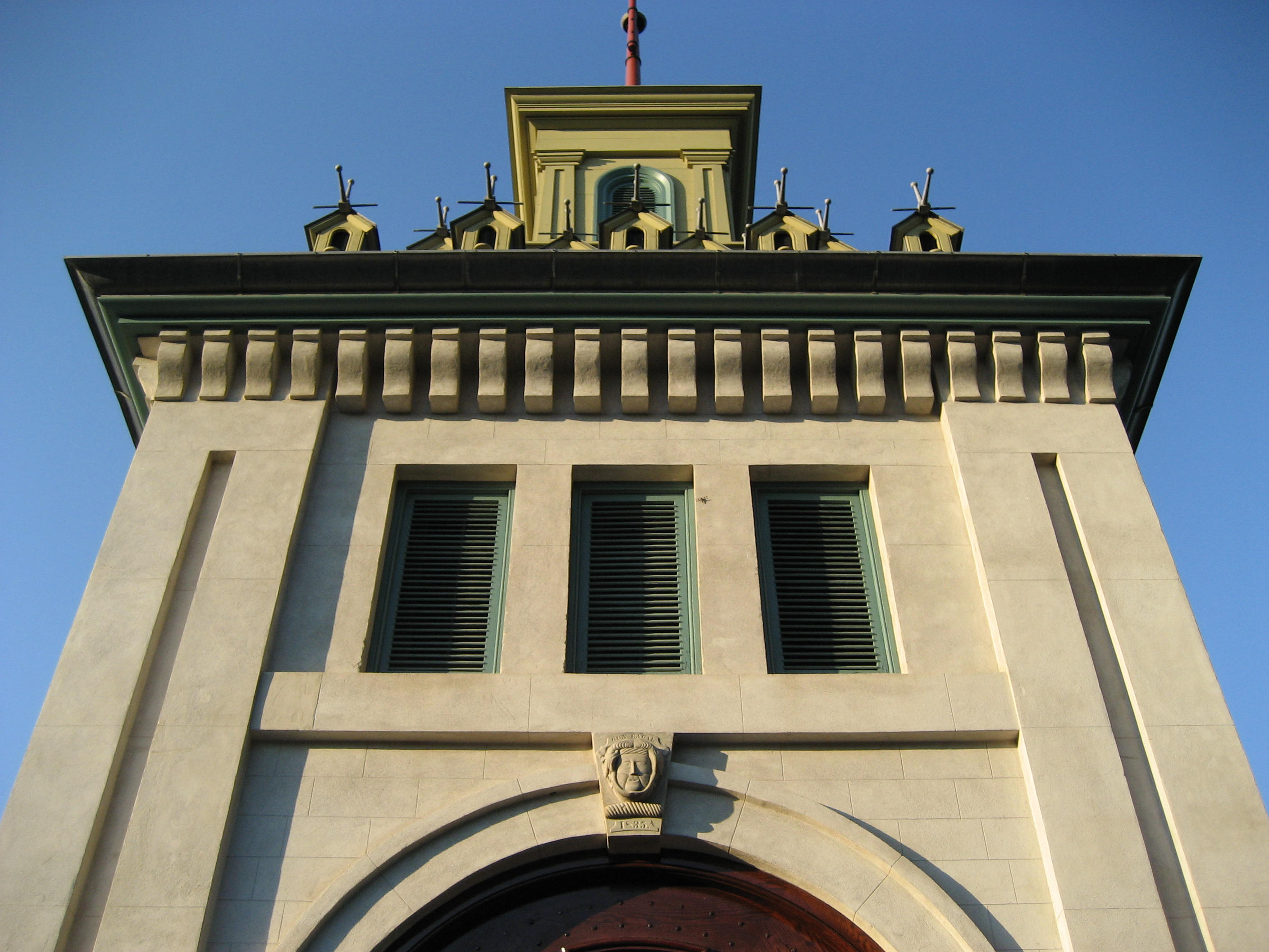 Dundurn Park, downtown Hamilton, Ontario